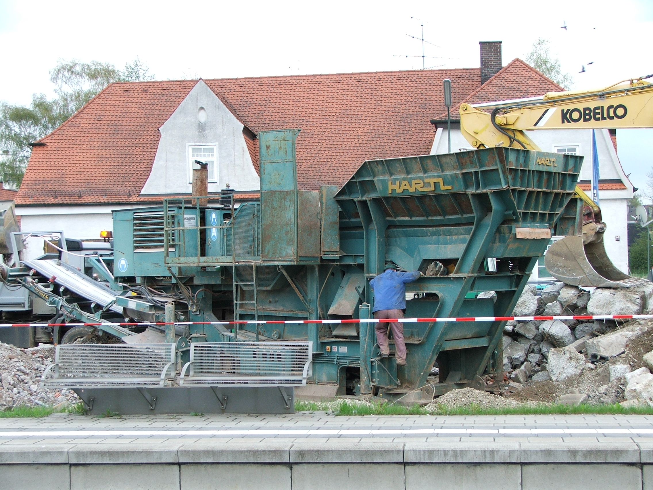 A stone mill, Moosburg station